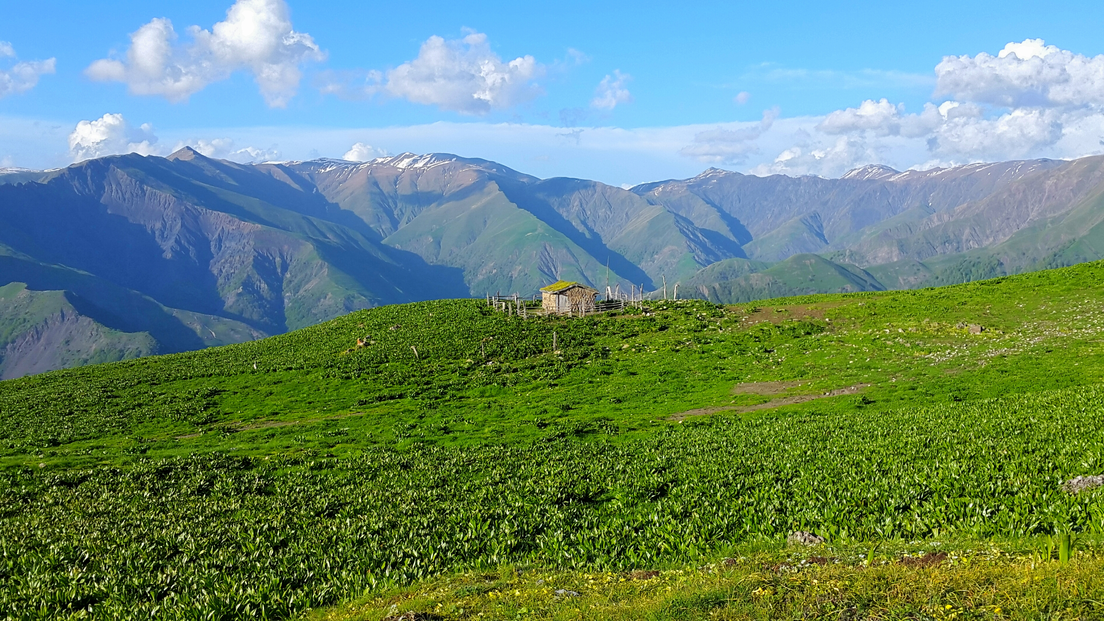 Caucasus Mountains in Lyakit-Kothuklu village of Gakh District of Azerbaijan. Gakh State Sanctuary 18